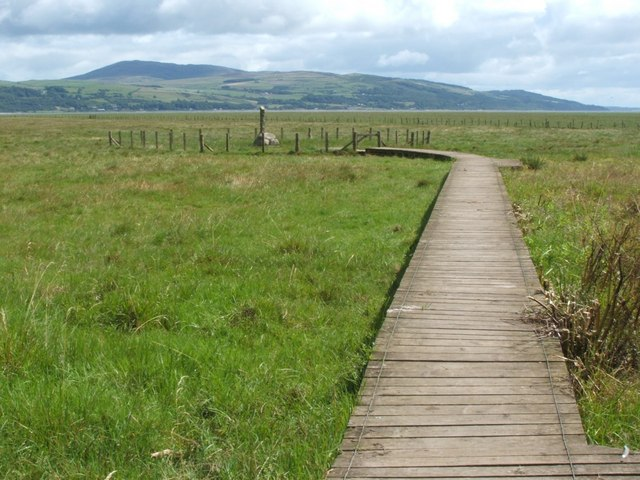 Approach to the Martyrs' Stake. A boardwalk leading to this monument, which can be seen in close-up here: 738417. "This monument marks the traditional site of the execution by drowning of two local women on 11th May 1685. Margaret McLaughlin, aged 63, and Margaret Wilson, aged 18, were put to death for their sympathies with the Covenanter movement, which for fifty years defied the claim of the king to be the head of the Presbyterian Church of Scotland. The Covenanters honoured only Christ as head of their church and they refused to submit to the introduction of Episcopalian bishops or the use of the liturgy in their services. Locally billeted government troops pursued the rebels as they met illegally on the moors and in the hills for worship. Some were shot as they fled; others were taken prisoner, tried, and sentenced to execution or banishment into slavery." "After their trial in Wigtown's tolbooth the two Margarets were tied to stakes and drowned in the tidal Bladnoch River. Their gravestones, along with one for three Covenanter men hanged at the same time, lie in the local churchyard. A monument was later erected on Windyhill to honour the Wigtown martyrs." [Text extracts taken from an information panel located at the site] The graves referred to above can be seen here: 937570.